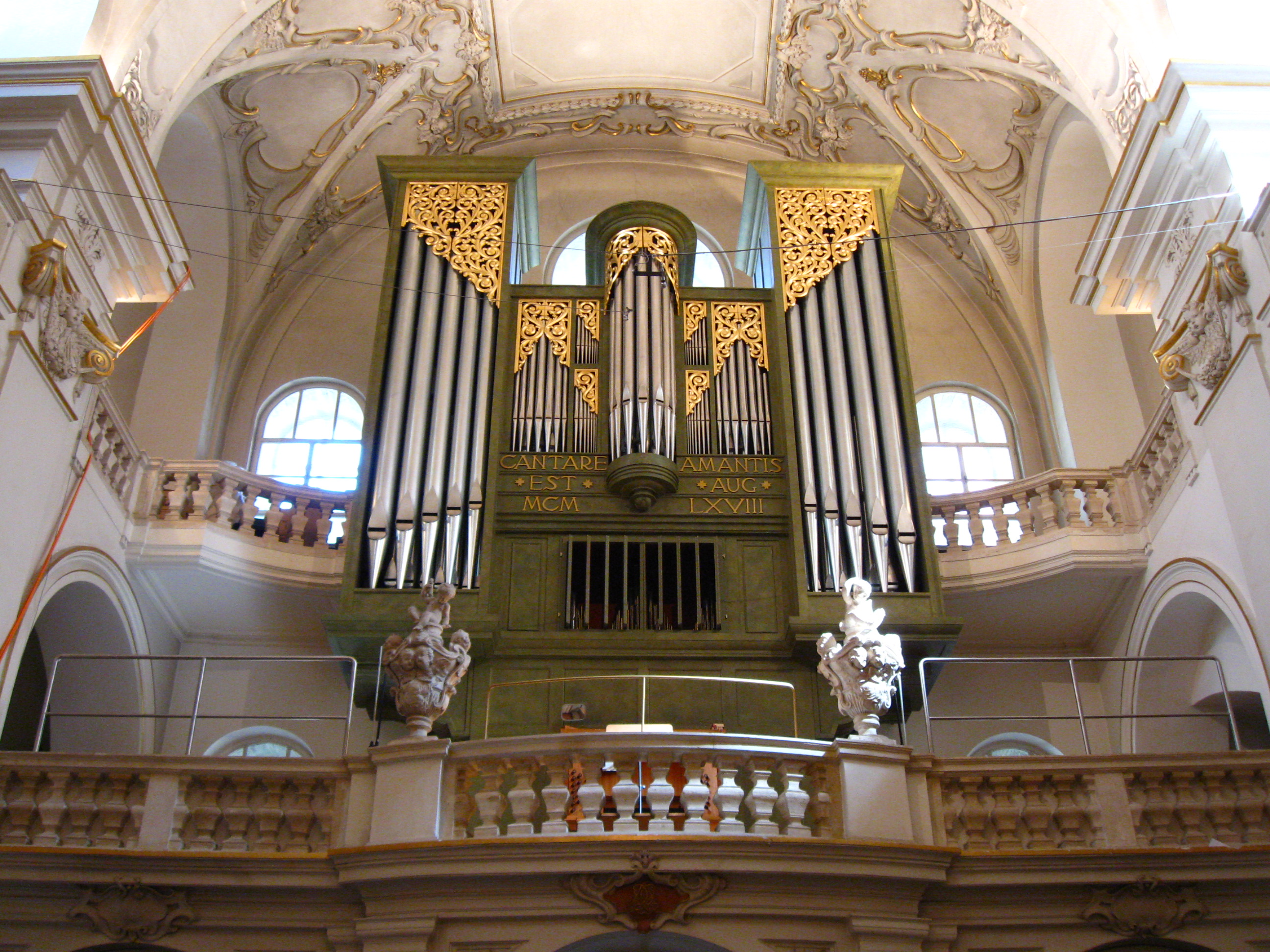 Organ of St. Ursula-Church, Vienna, built by Gregor Hradetzky